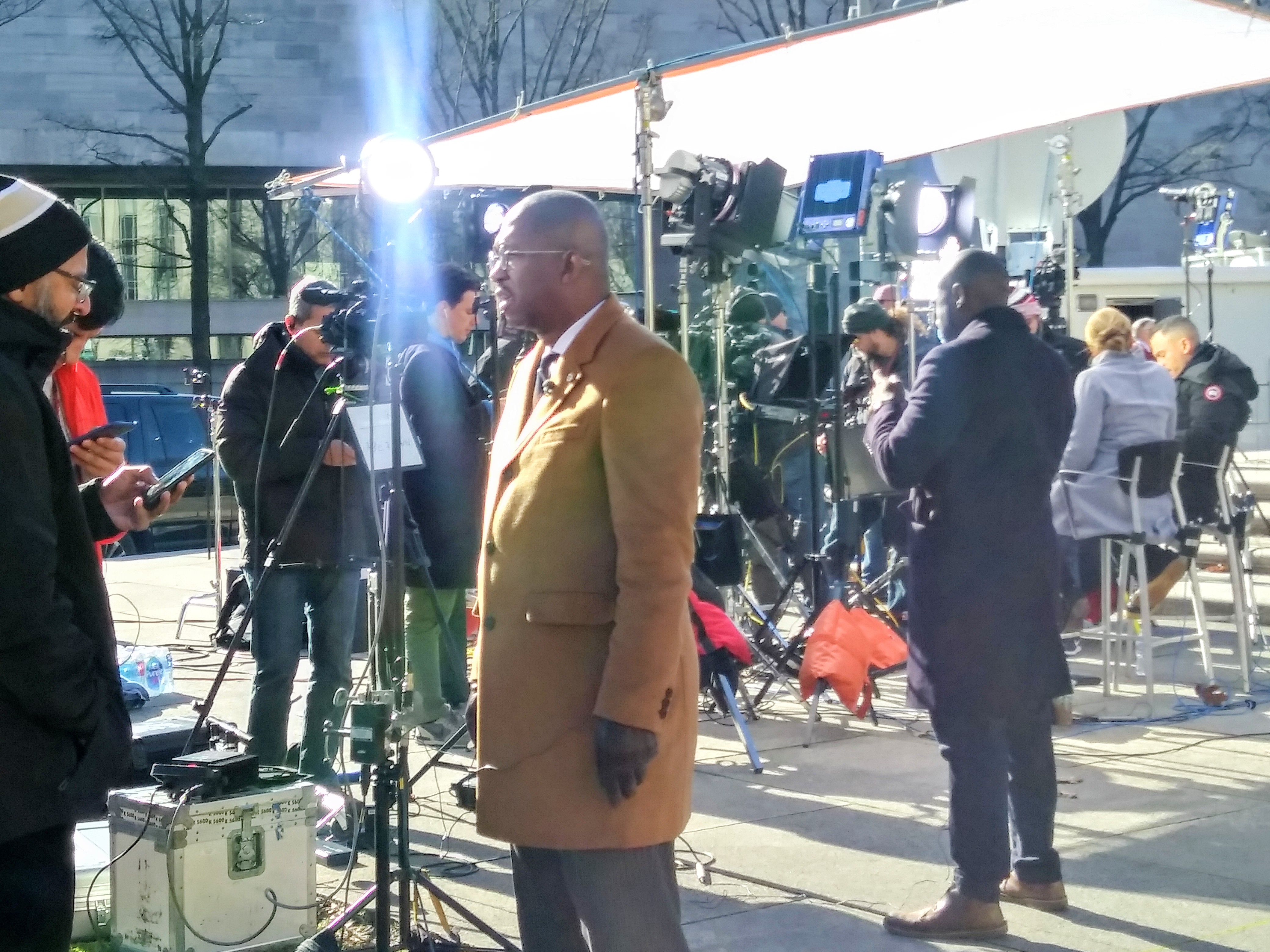 Pierre Thomas at the sentencing hearing for Michael Flynn_E. Barrett Prettyman Bldg.U.S. Federal Courthouse_12-18-18